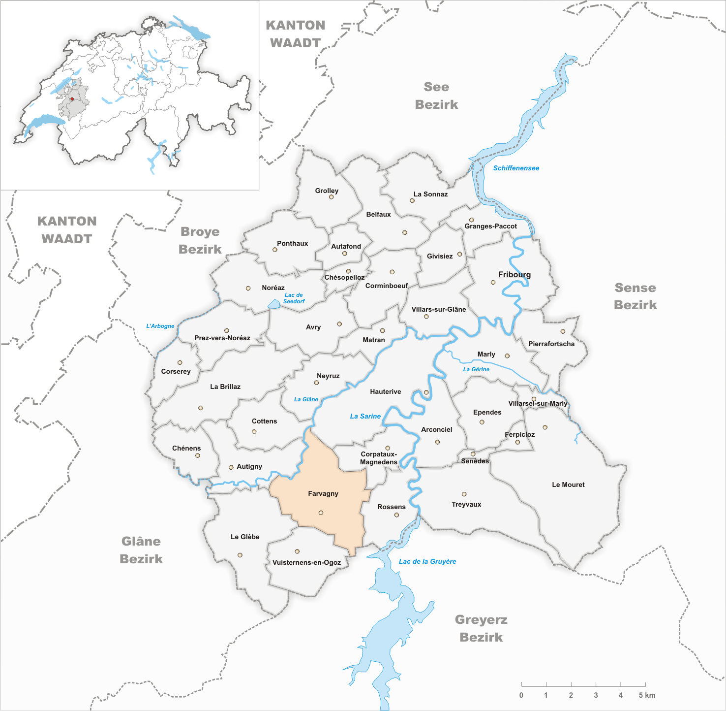 Municipality Farvagny